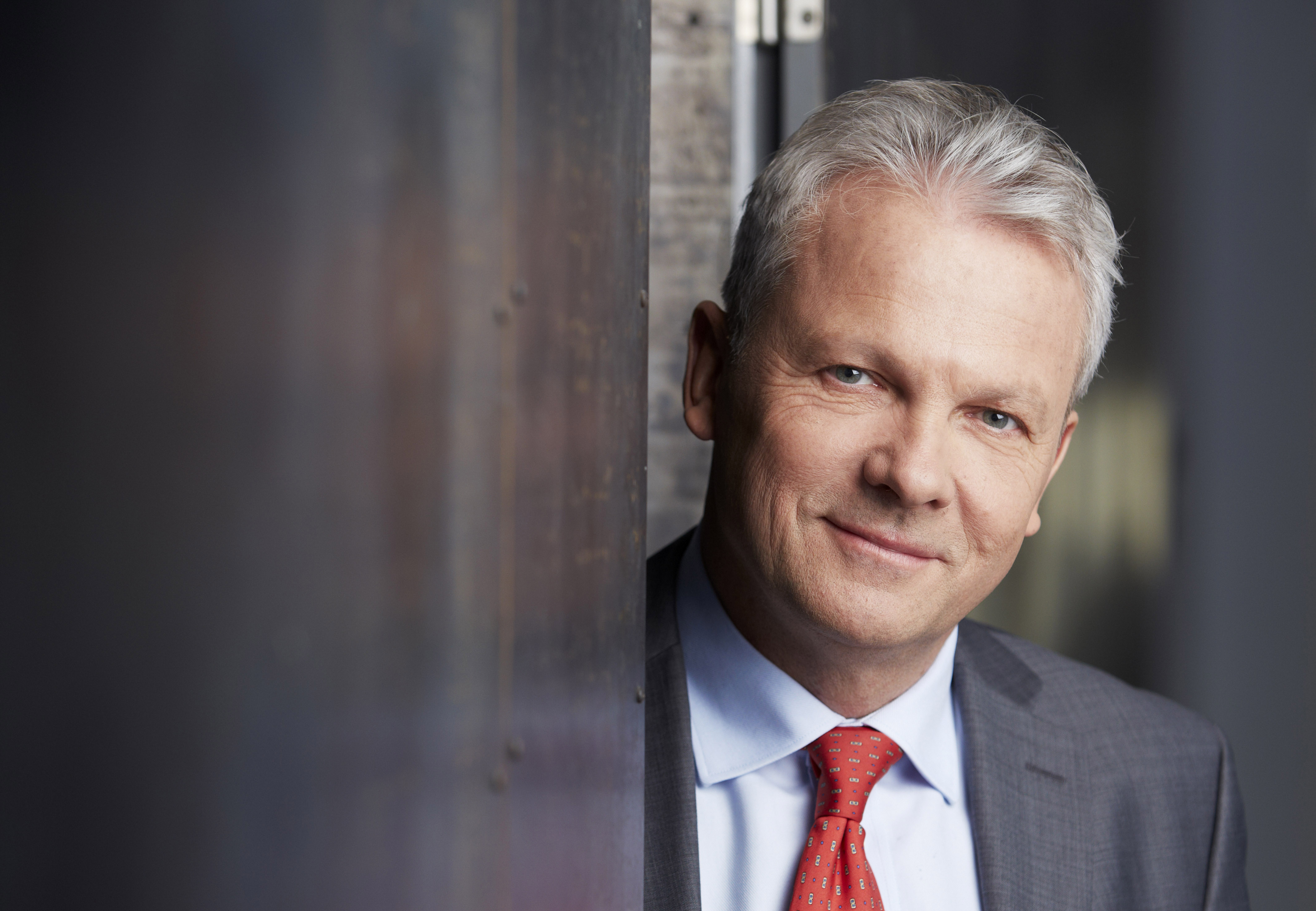 fot. Tadeusz Nowicki 601 362 305